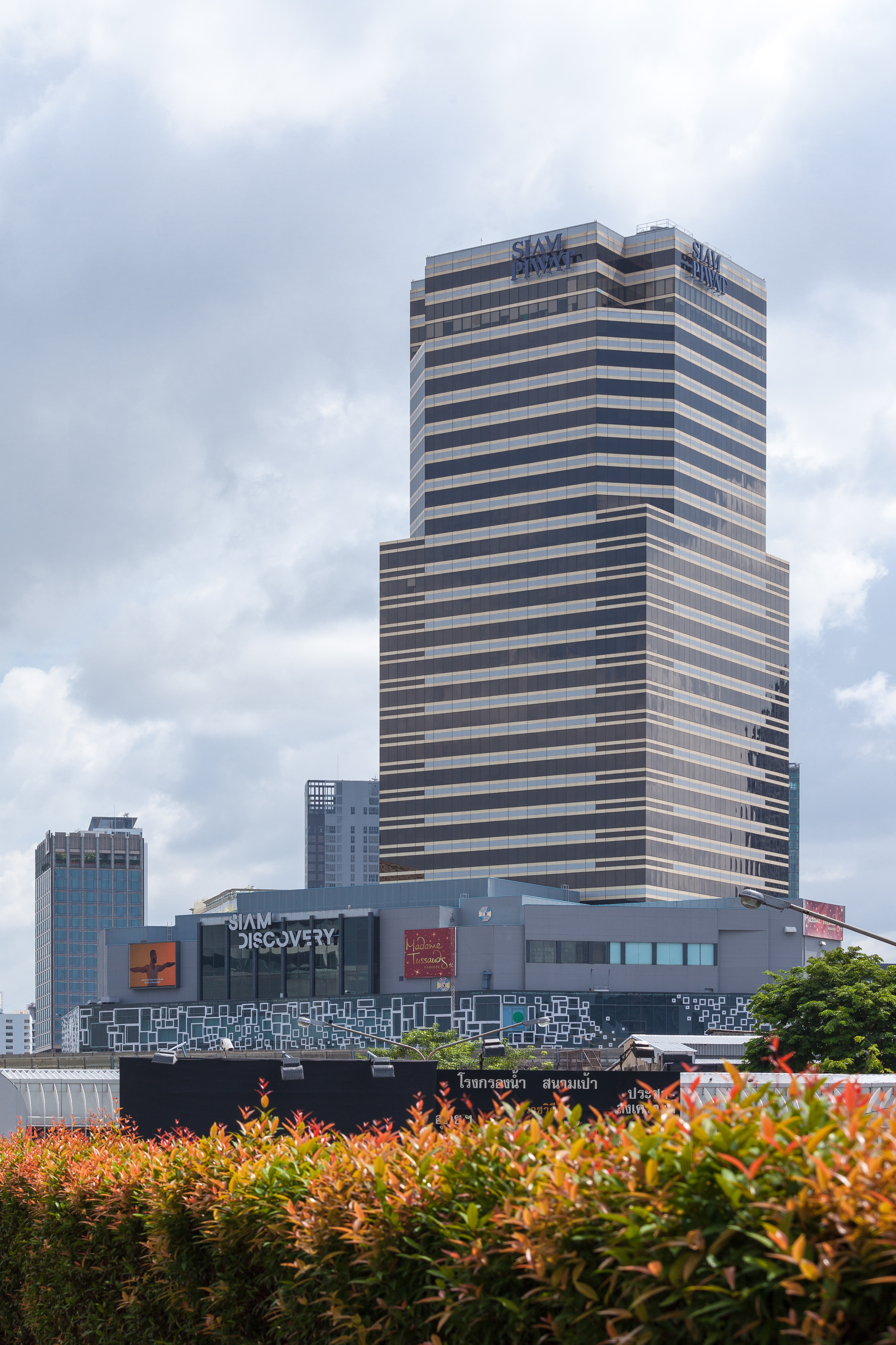 Siam Piwat building designed by Robert G. Boughey in 1997 located at Pathum Wan District, Bangkok.